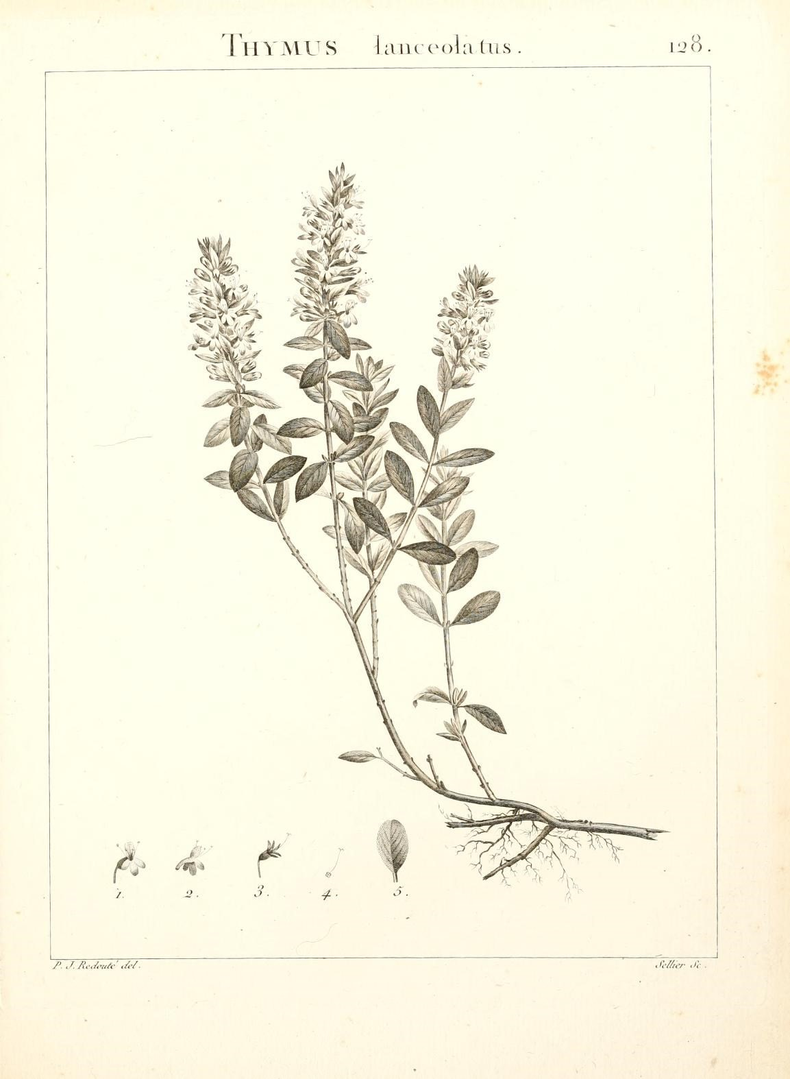 ThYJVLUS Lanceola tus i'. 28 /' J.Jle^ouA •'.&.■ .','•/#,•/• ./,'•